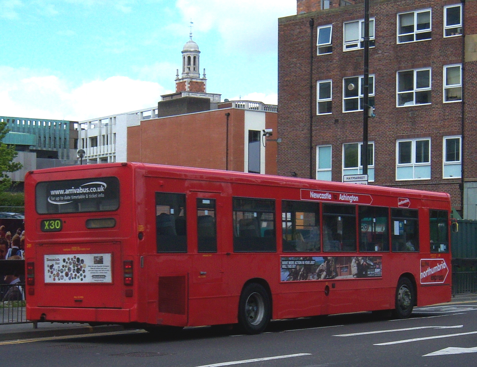 Arriva North East 281 (N281 NCN), a Scania L113/East Lancs European bus, in Newcastle upon Tyne, on route X30.